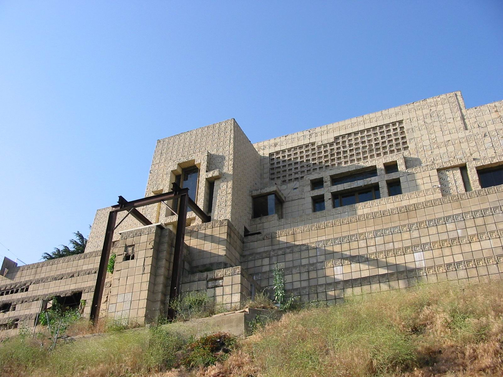 Ennis House, Los Angeles, California, USA